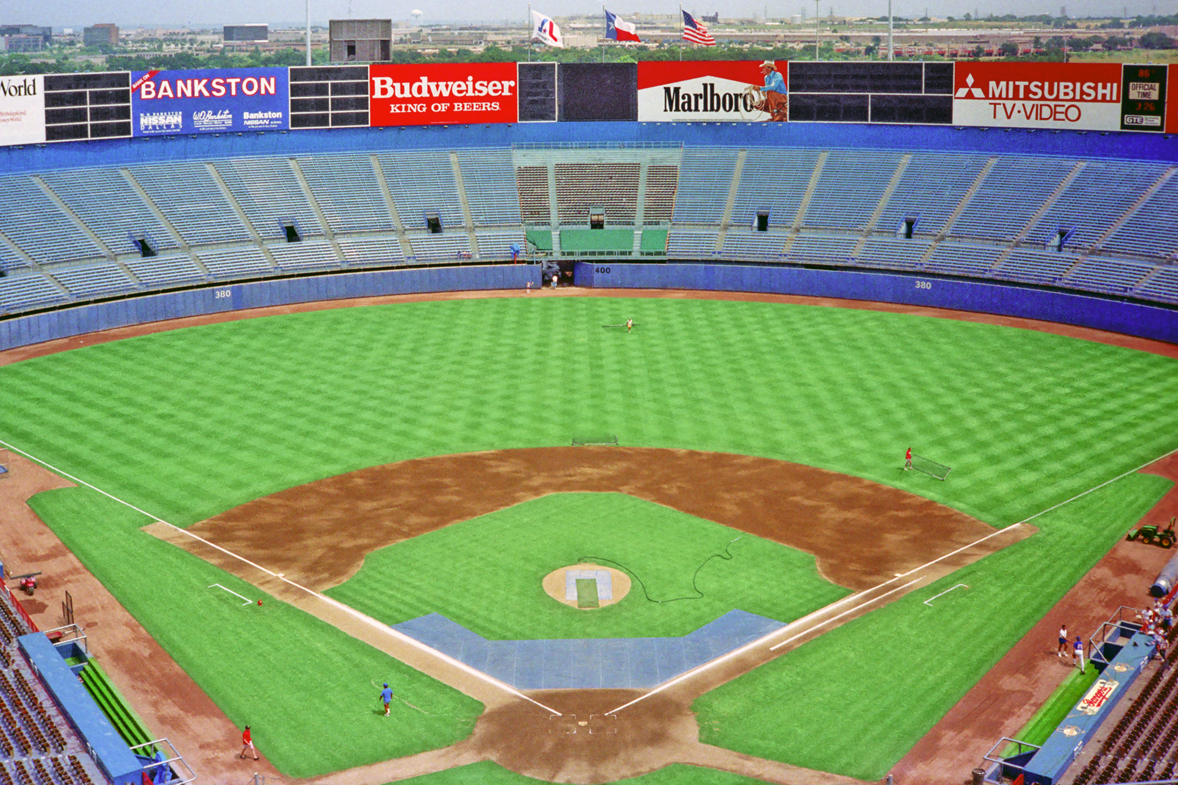 Taken on June 24, 1988 before the Chicago White Sox played the Texas Rangers. For the history of this ballpark, click